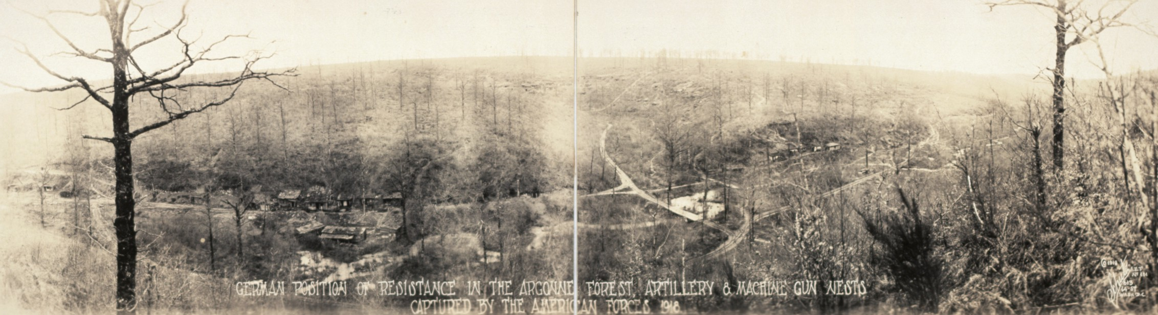 A view of former German lines in the Argonne Forest, France, captured by the American Forces, 1918.